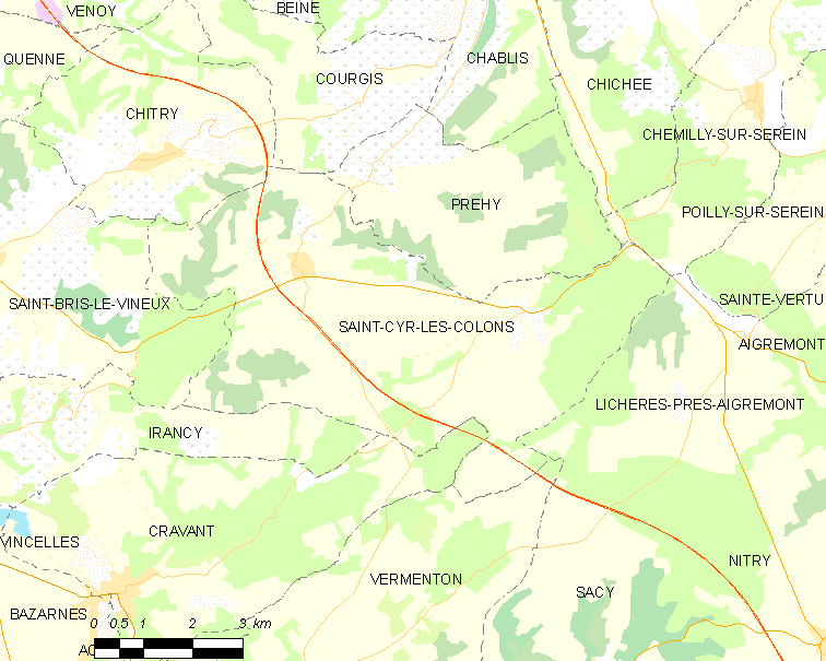 Map of French municipality Saint-Cyr-les-Colons